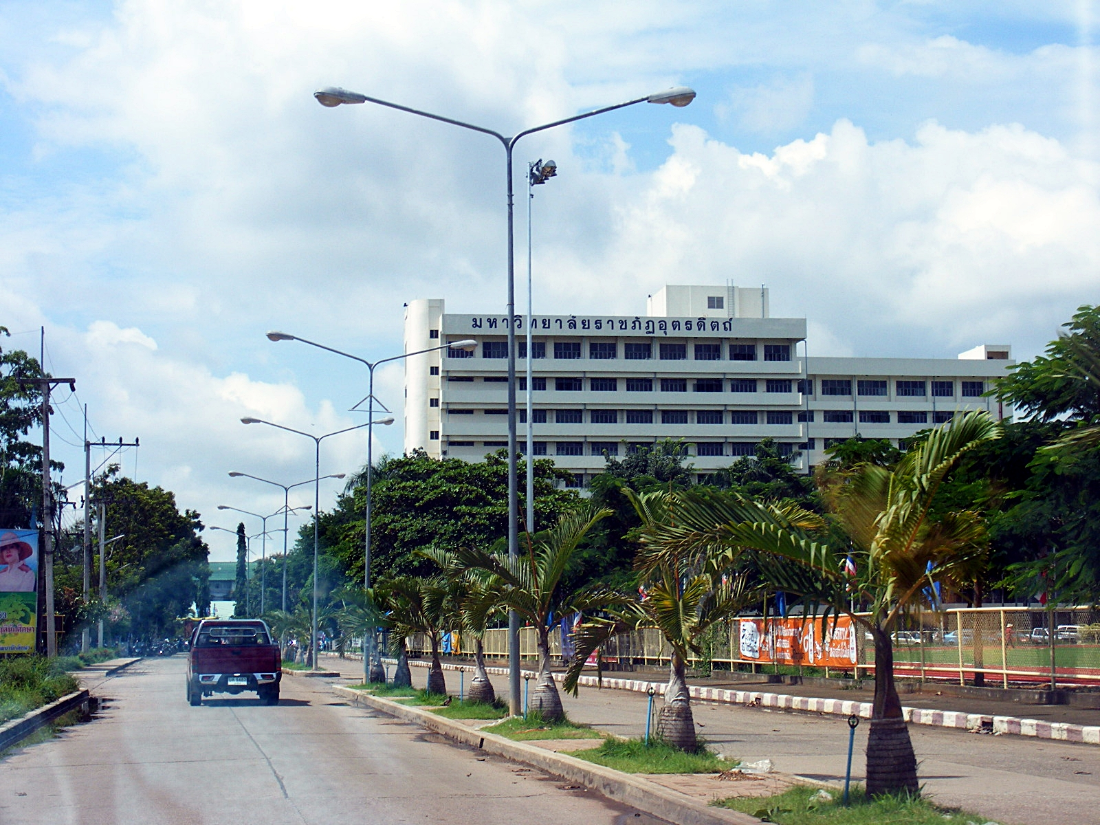 Uttaradit Rajabhat University Location: Uttaradit Rajabhat University Mueang Uttaradit, Uttaradit Province, Thailand.